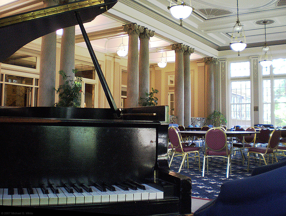 A piano inside the lobby of William Pitt Union at the University of Pittsburgh. photo by Michael G White